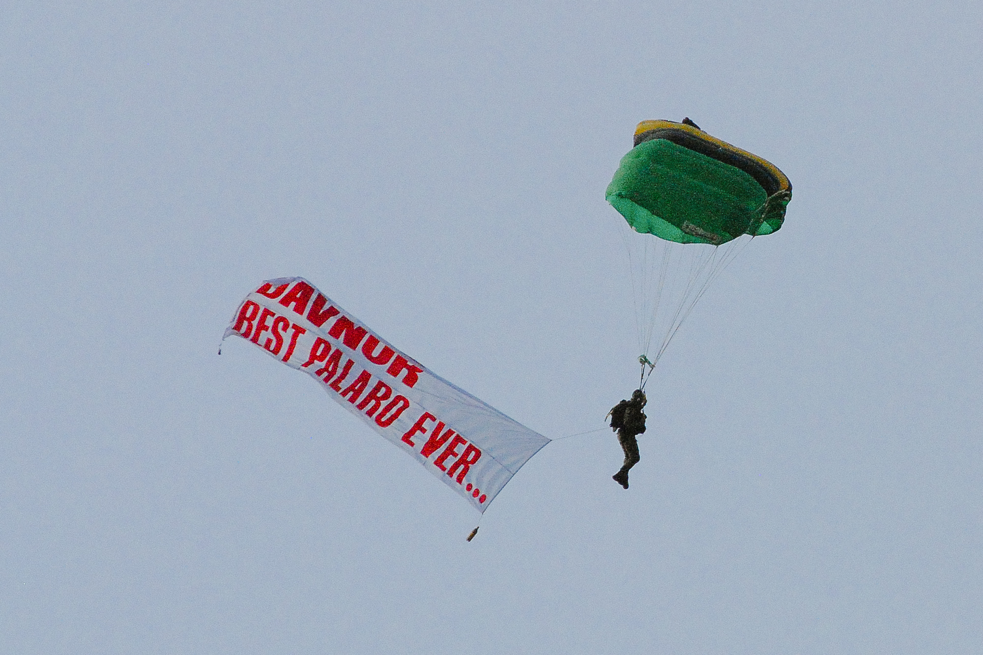 Elite paratroopers from the Armed Forces of the Philippines performed an aerial paradrop, carrying with them banners that read "DavNor Best Palaro Ever…" and "Maraming Salamat Po!" (Thank you very much!) during the Opening Ceremony of the Palarong Pambansa 2015 in Tagum City, Davao del Norte..